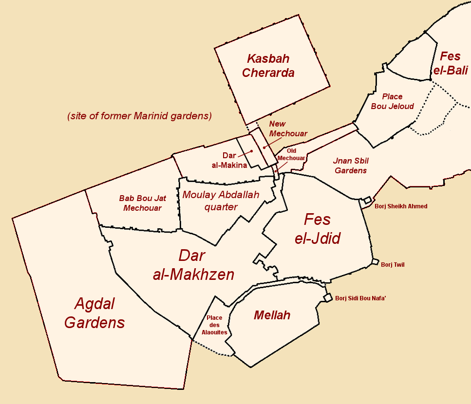 Plan of Fes el-Jdid, showing its major divisions, including the Dar al-Makhzen